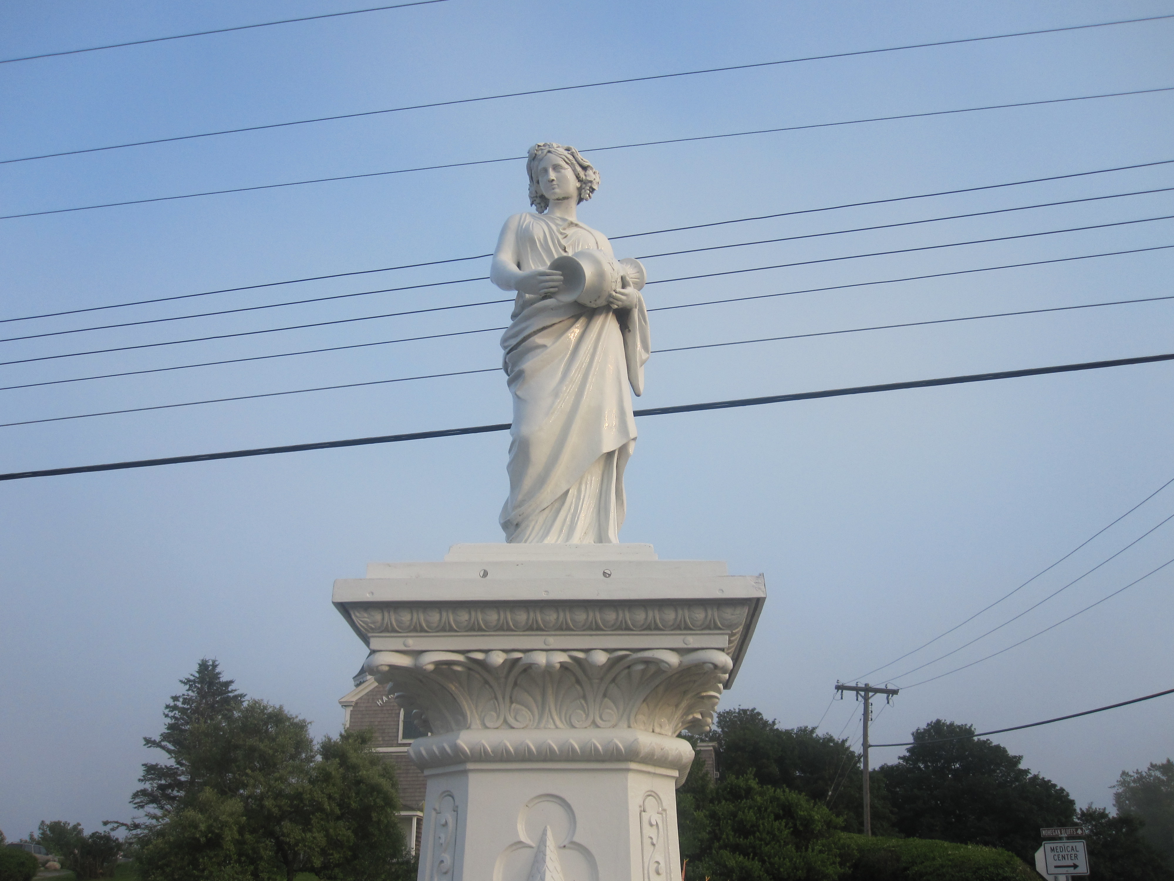 Judith / Rebecca (?) at the Well statue in New Shoreham was placed by prohibitionists in 1896 to dramatize the evils of alcohol consumption. It is near Harbor Church.